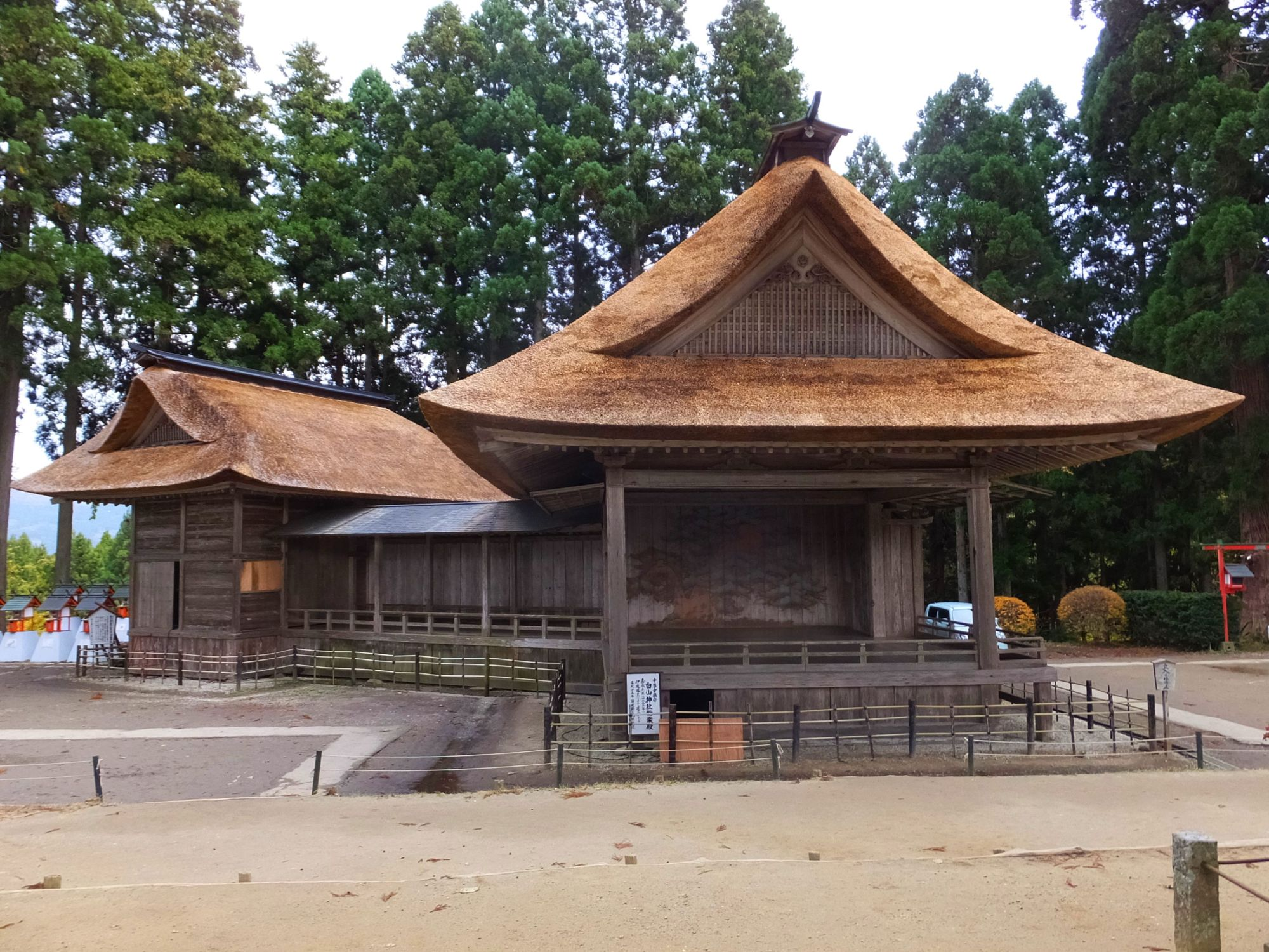 Noh Stage at Hakusan shrine (Chūson-ji temple) in Hiraizumi, Iwate Prefecture